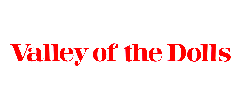 Drawing based on the original title. Do it with paint.